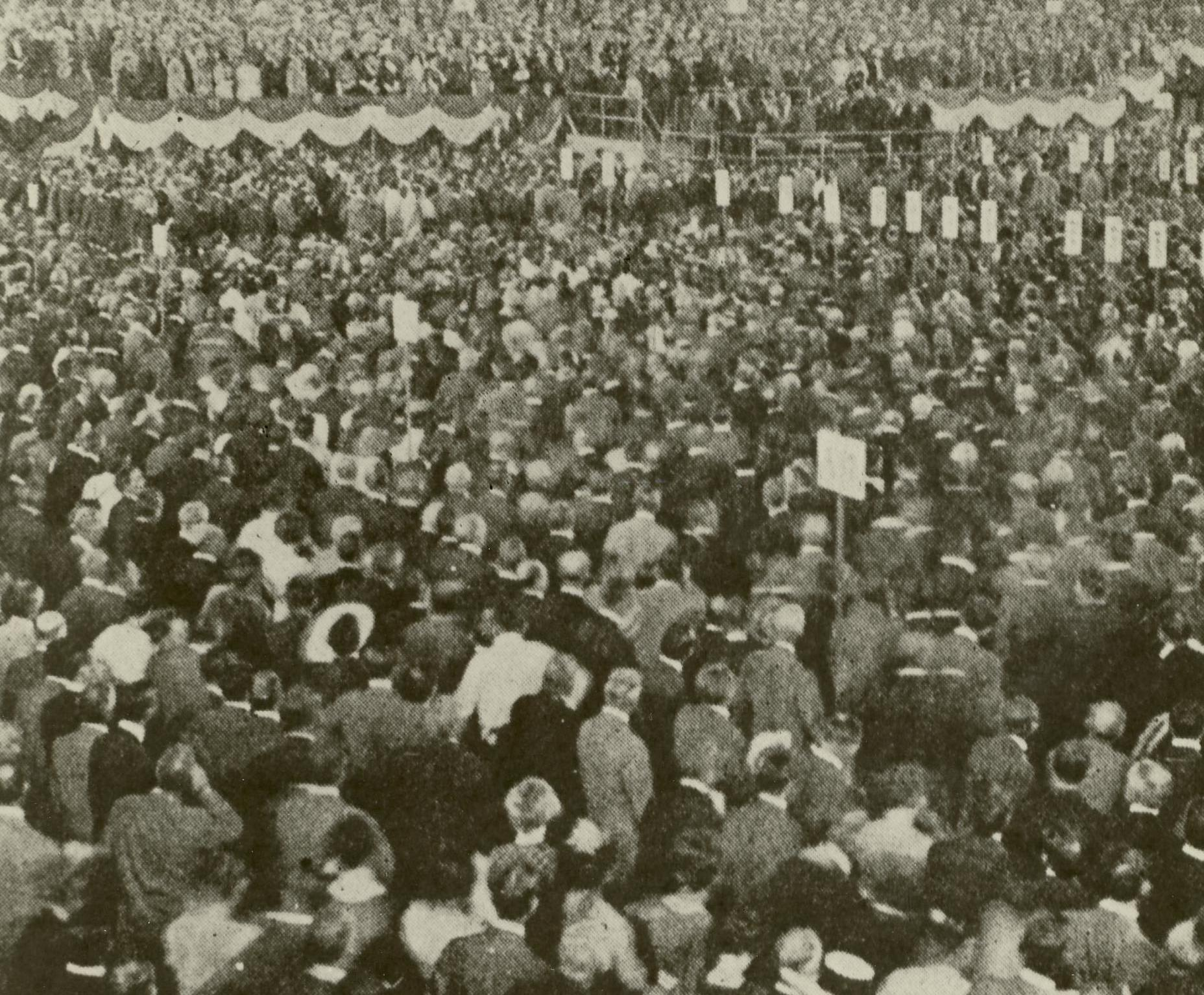 Local Accession Number: 123 Description: The delegates of the Democratic Convention of 1912. Photographer: Underwood and Underwood Source: Pageant of America Size: 8x10 Medium: Print, Black and White Date: 1912